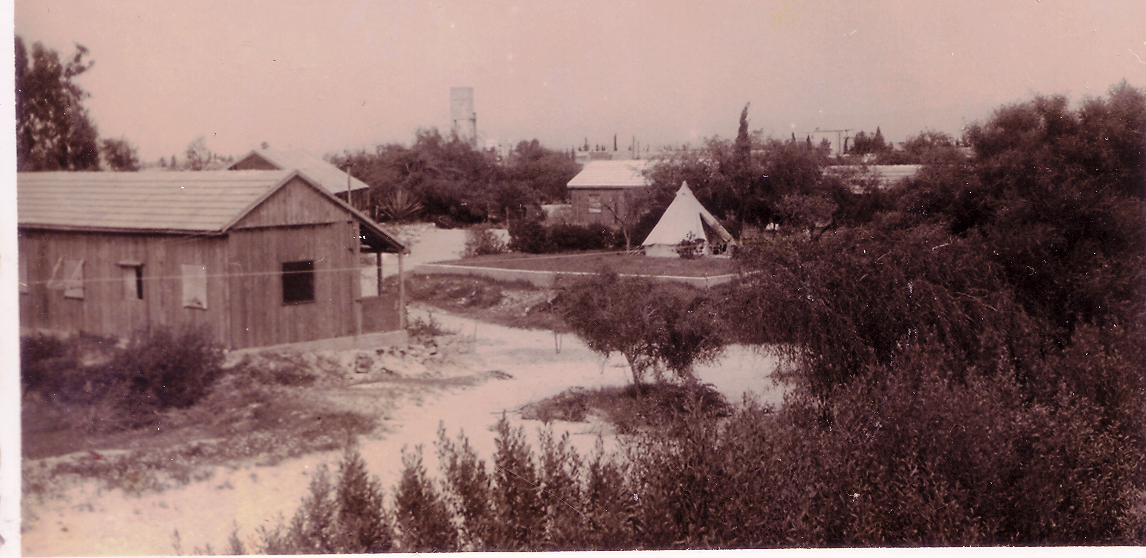 the kibutz at the first days